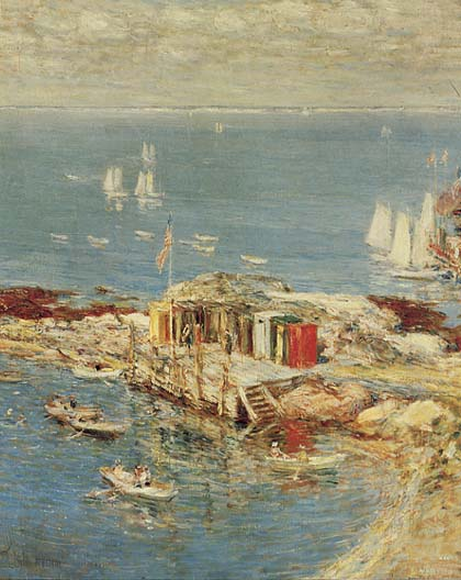 "August Afternoon, Appledore" by the American artist Childe Hassam, oil on canvas, shows a view of a tidal pool with bath houses and swimming pier on Maine's Appledore Island.